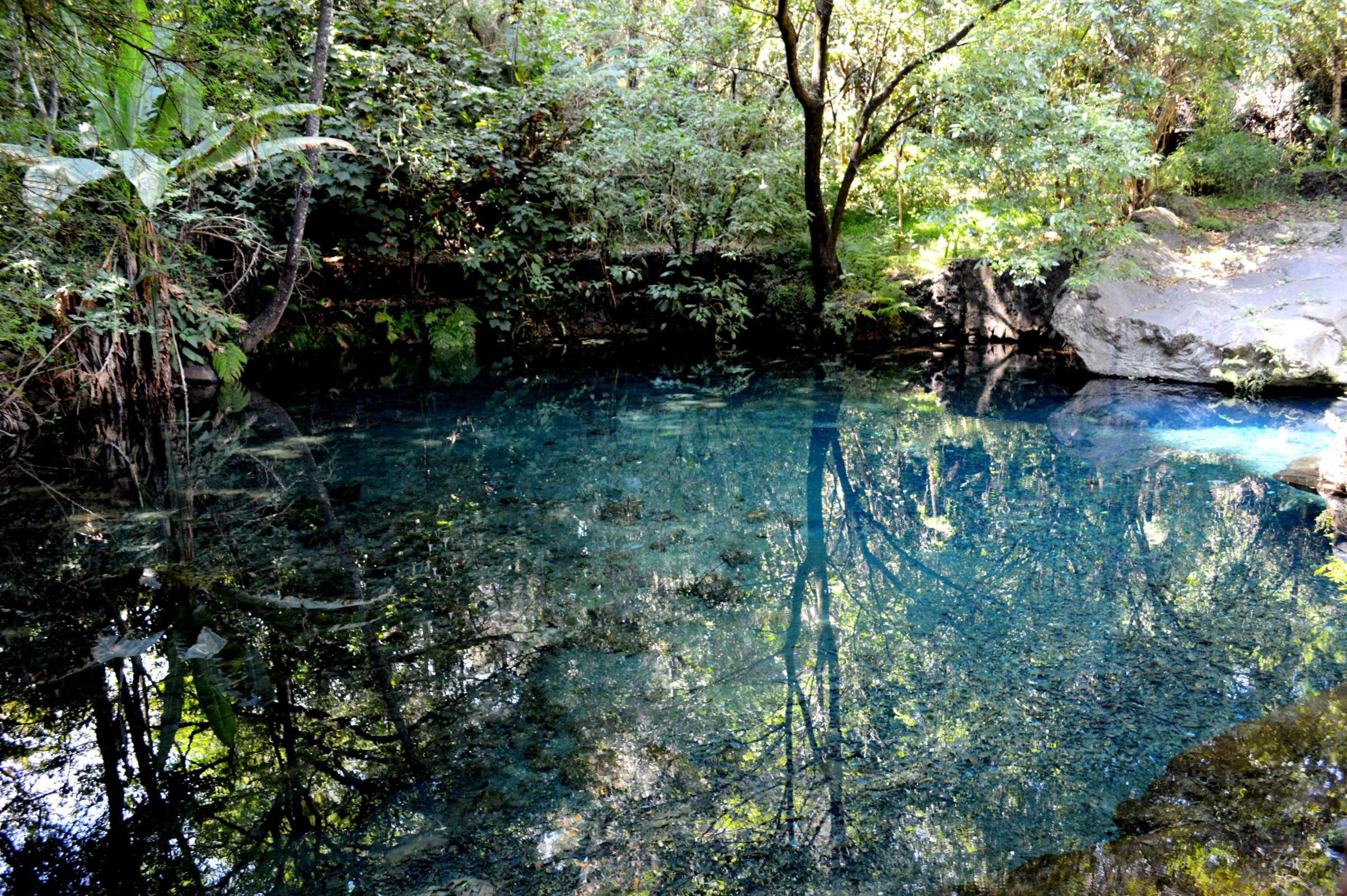 Headwaters of theCupatitzio Riverin the Barranca de Cupatitzio National Park in Uruapan, Michoacan, Mexico